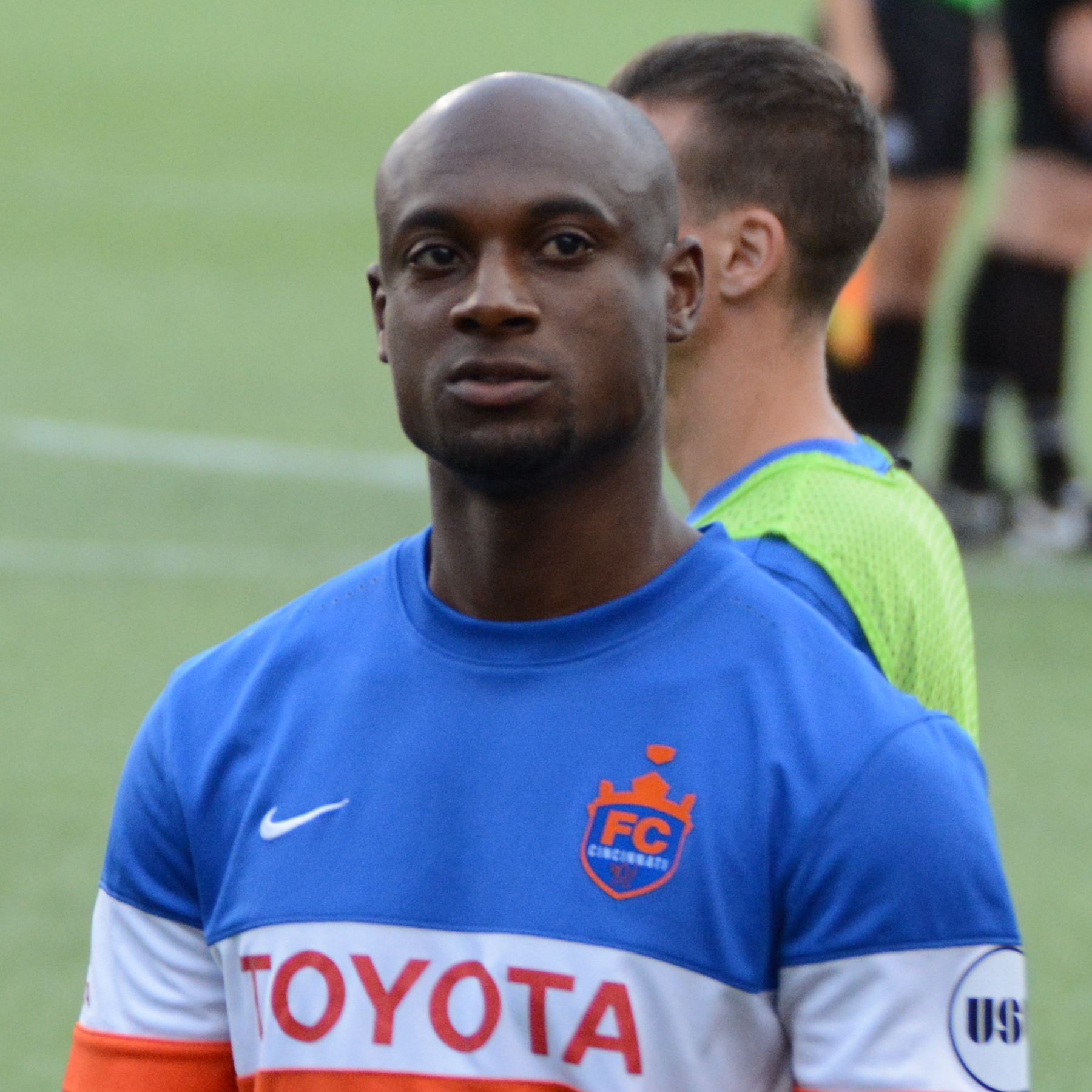 A portrait of English footballer Justin Hoyte, a defender for FC Cincinnati, standing near his club's bench. This photo was taken shortly before kickoff at a 2017 U.S. Open Cup Round of 16 match between FC Cincinnati and Chicago Fire SC at Nippert Stadium in Cincinnati, Ohio on June 28, 2017.